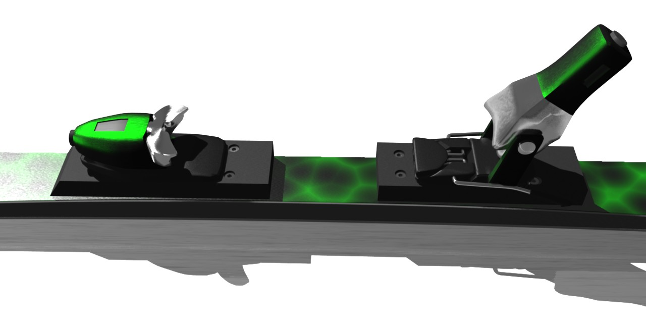 Alpine ski binding